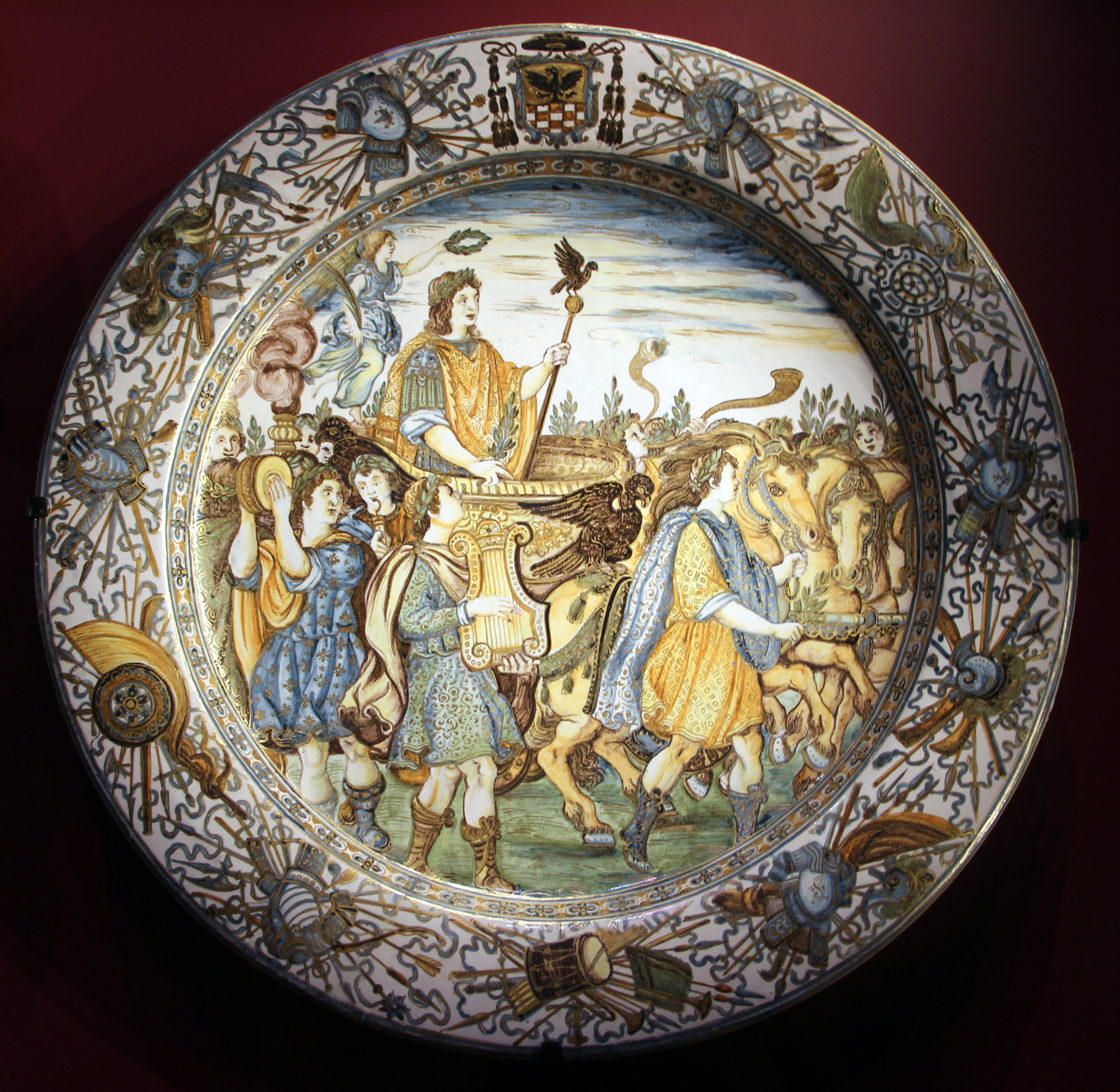 Decorative arts in the Louvre